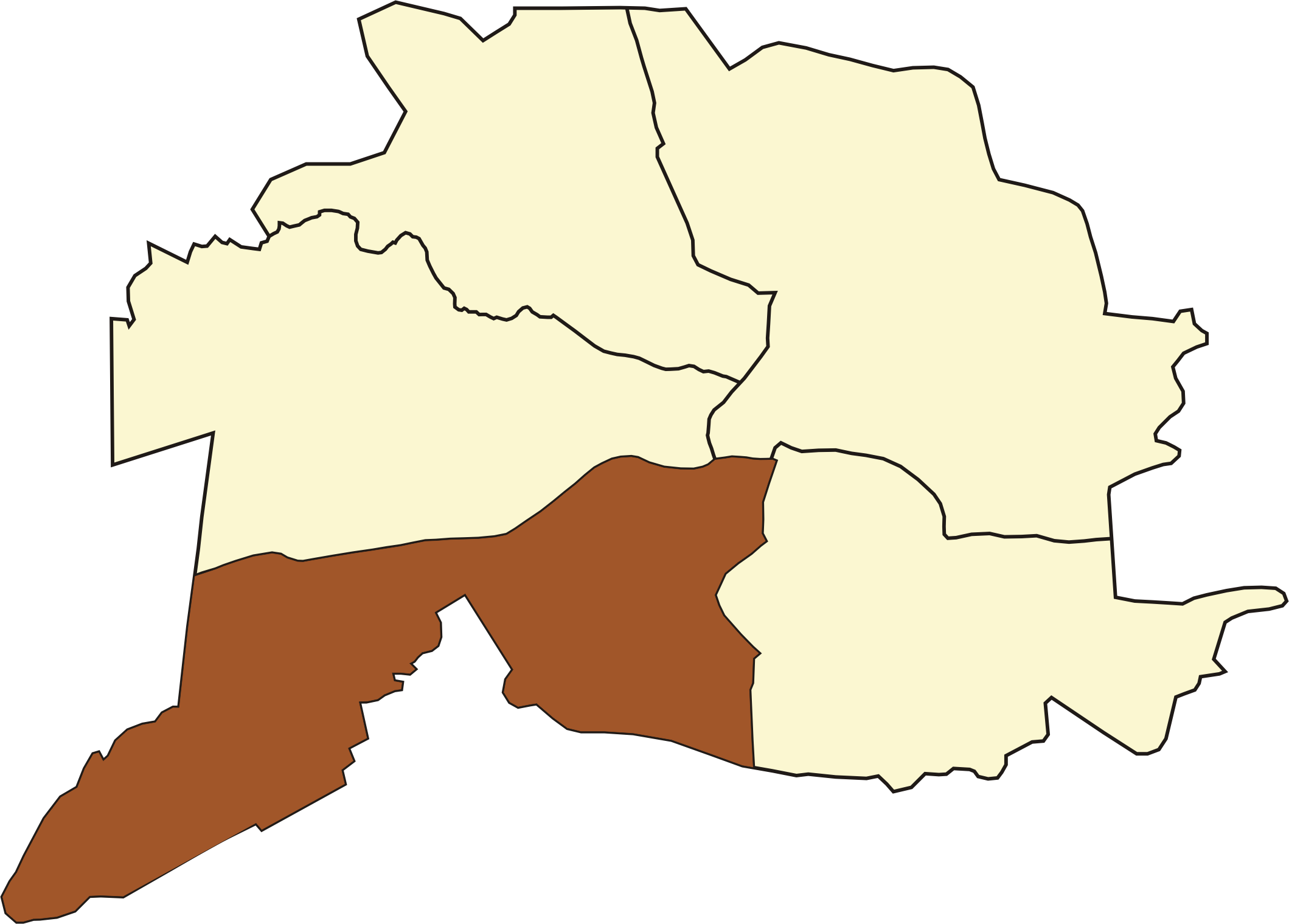 Baltiysky district of Kaliningrad on the map of Kaliningrad.